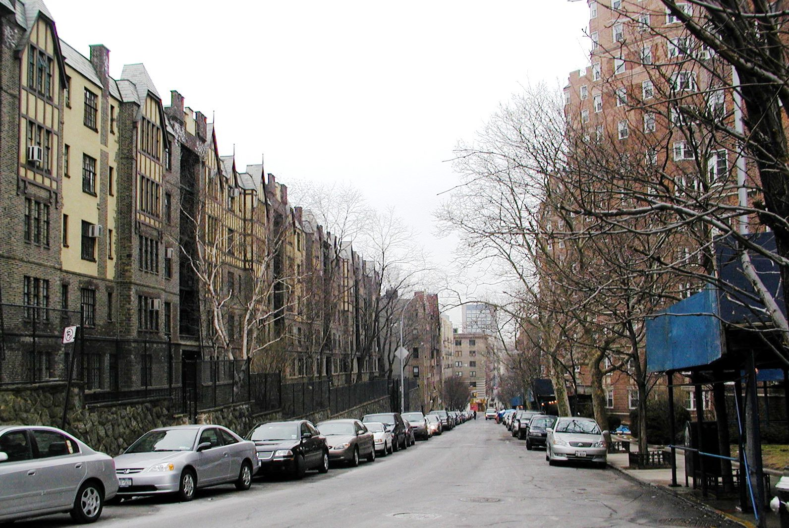 Cabrini Boulevard in Hudson Heights, Manhattan. Hudson View Gardens housing cooperative on the left and Castle Village coop on the right.